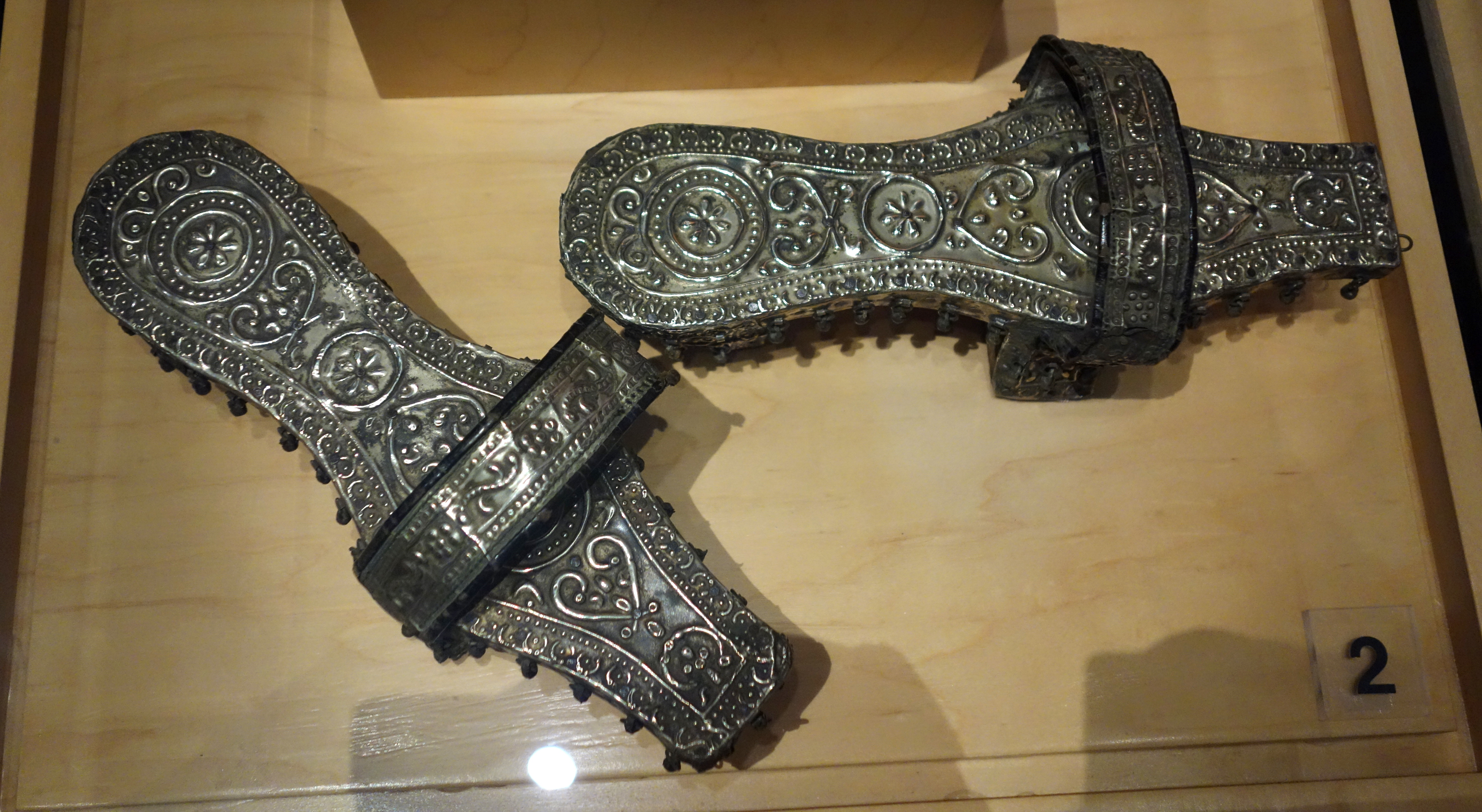 Exhibit in the Bata Shoe Museum, Toronto, Ontario, Canada. This item is old enough so that its design is in the public domain. The museum permitted photography without restriction.